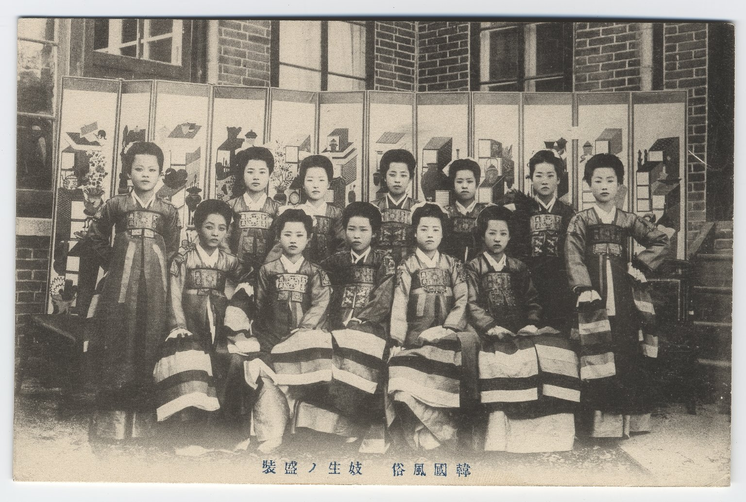 Collection: Willard Dickerman Straight and Early U.S.-Korea Diplomatic Relations, Cornell University Library Title: Gesang School (i.e. kisaeng school) Date: ca. 1904 Place: Asia: North Korea; Pyongyang Type: Postcards/Ephemera Description: Korean kisaengs, or singing girls, dressed up for singing and dancing. Korean kisaeng is special women's occupation that exists for helping parties enjoyable by singing and dancing. Their social position was among the lowest in the traditional Korean class system. Their daughters also became kisaengs and their sons became slaves. The art of entertaining of the kisaeng is analogous to Japanese geisha. These professional entertainers were highly trained in the arts of poetry, music, dance, and other forms of social or artistic diversion. The picture is somewhat curious. It was taken in front of a modern, western-style brick building, with a very peculiar Korean screen as the backdrop. Inscription/Marks: Inscription in characters imprinted on image; pencilled inscription on verso: 'Gesang School' Identifier: 1260.74.09.02 Persistent URI: There are no known U.S. copyright restrictions on this image. The digital file is owned by the Cornell University Library which is making it freely available with the request that, when possible, the Library be credited as its source. We had some help with the geocoding from Web Services by Yahoo!